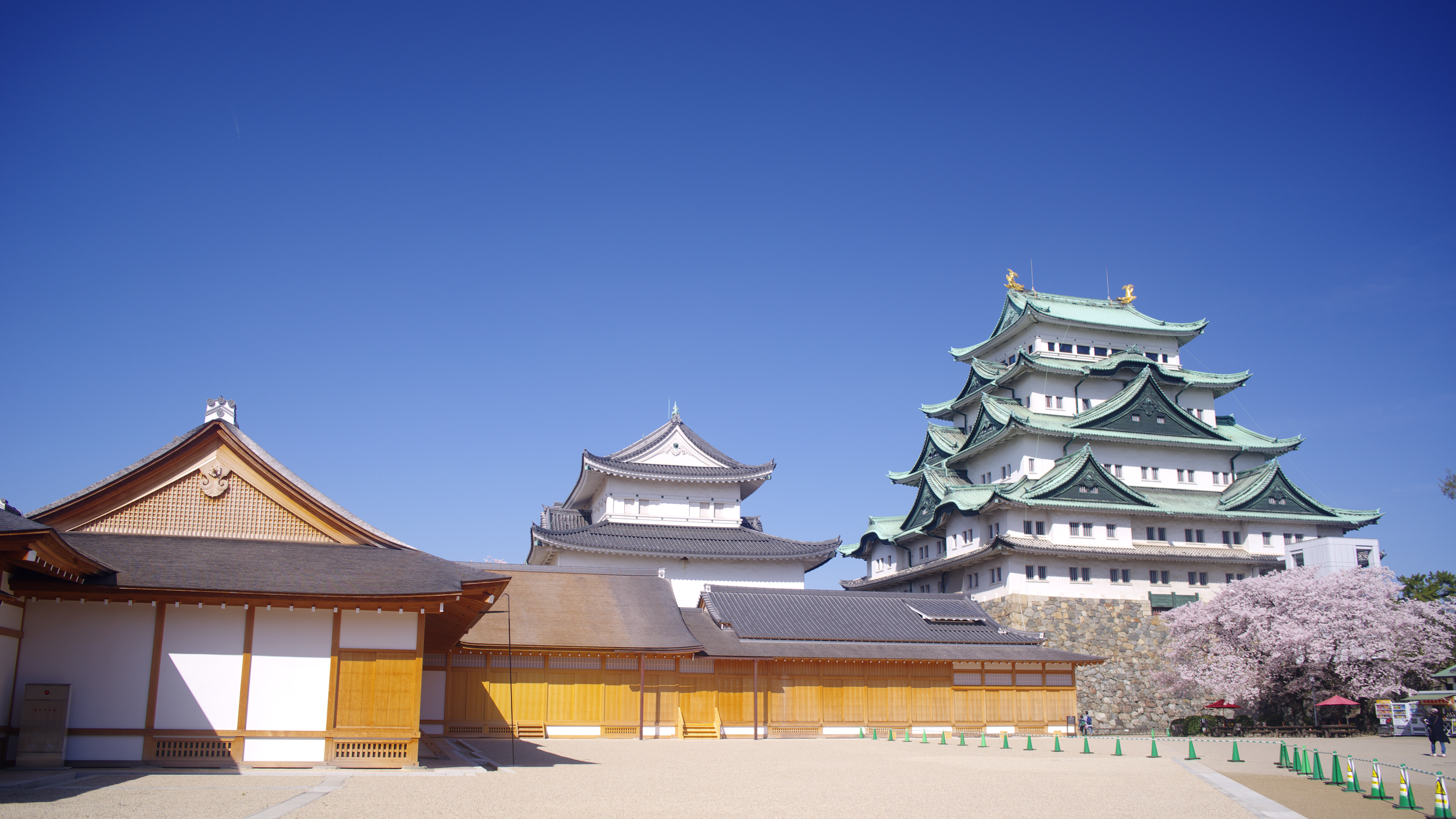 Tenshu and Honmaru Goten of Nagoya castle. Spring, 2018.